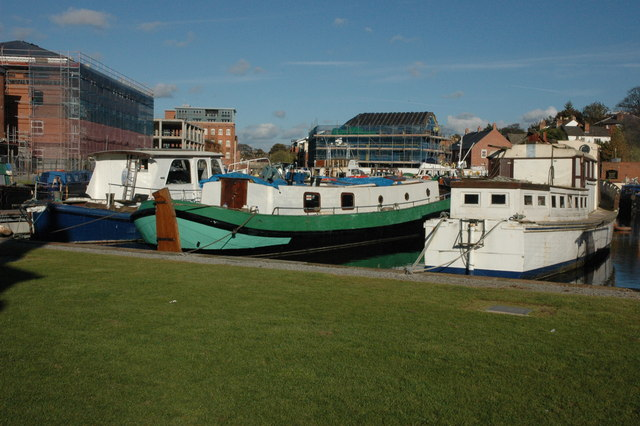 Boats moored in Diglis Basin, Worcester